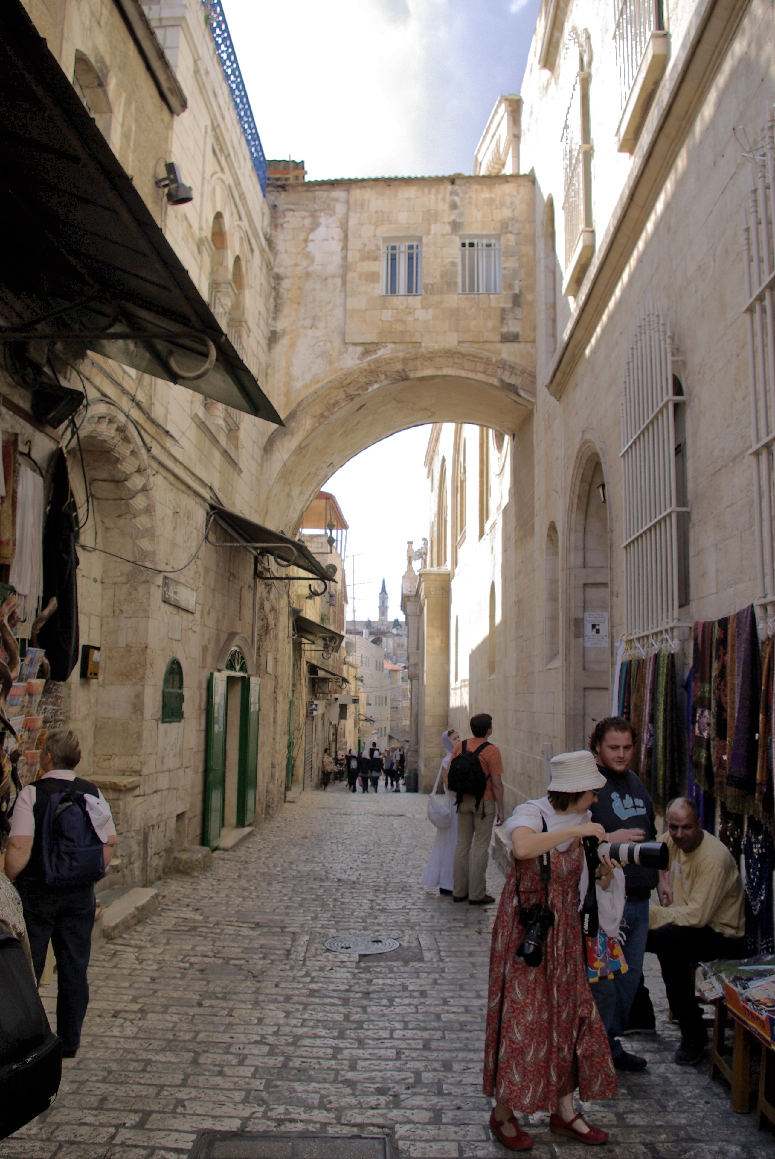 Jerusalem, Via Dolorosa, Ecce homo bow